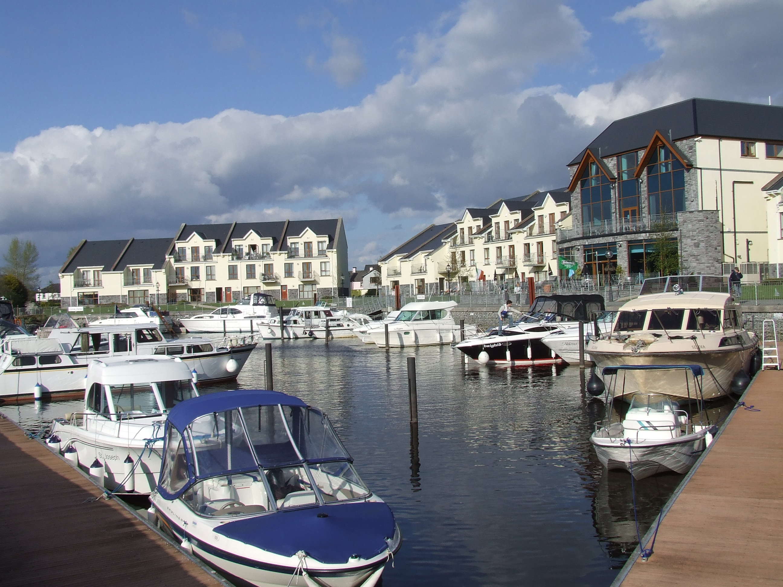 The cruiser marina at the Marina hotel and apartment complex on the Shannon-Erne Waterway at the village of Leitrim. May 2010.